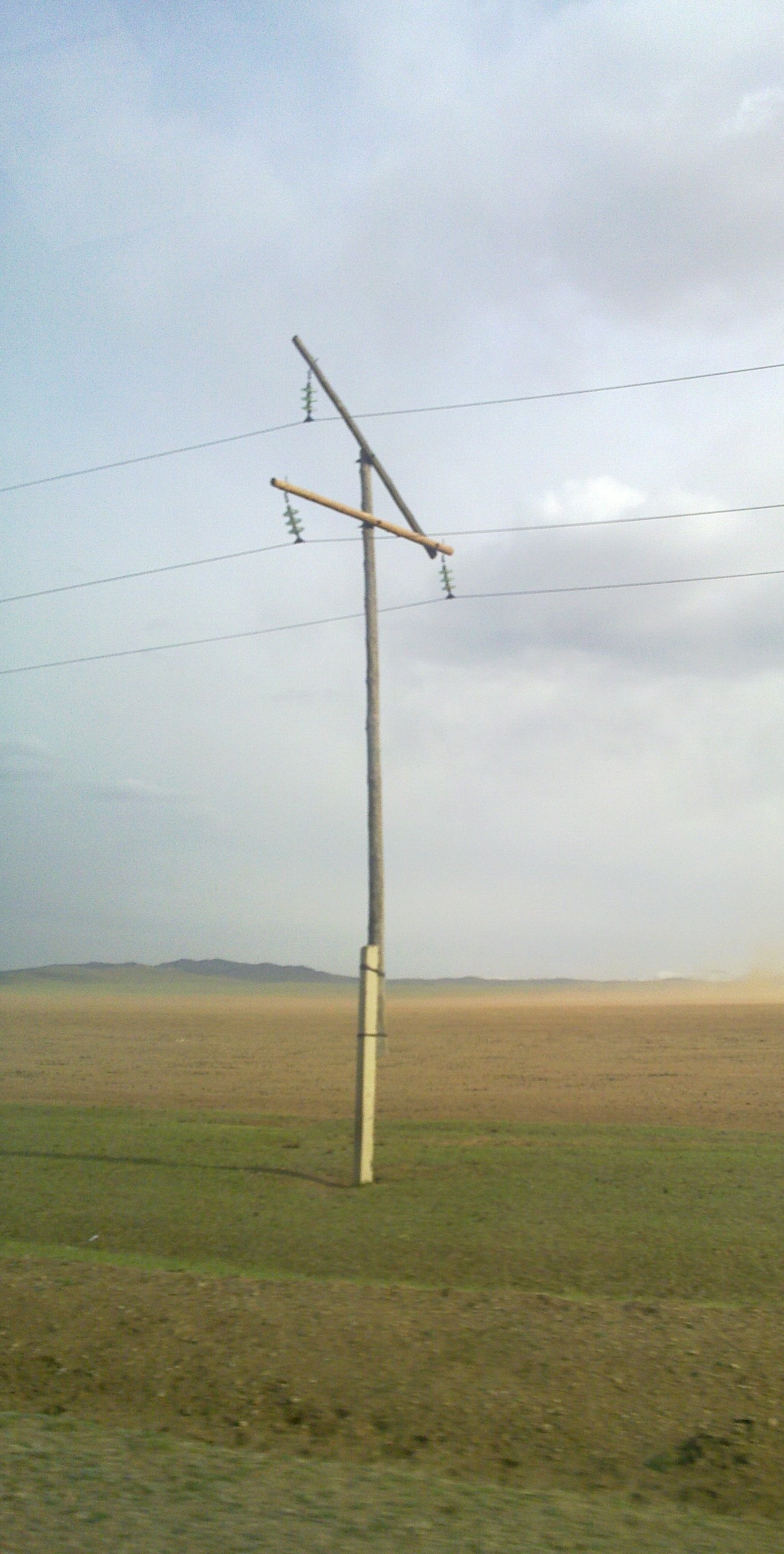 Simple wooden HV transmission tower in Mongolia